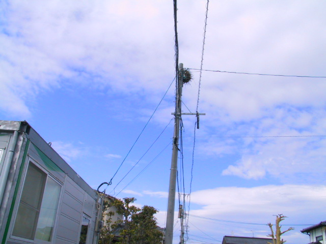 The nest of Pica pica